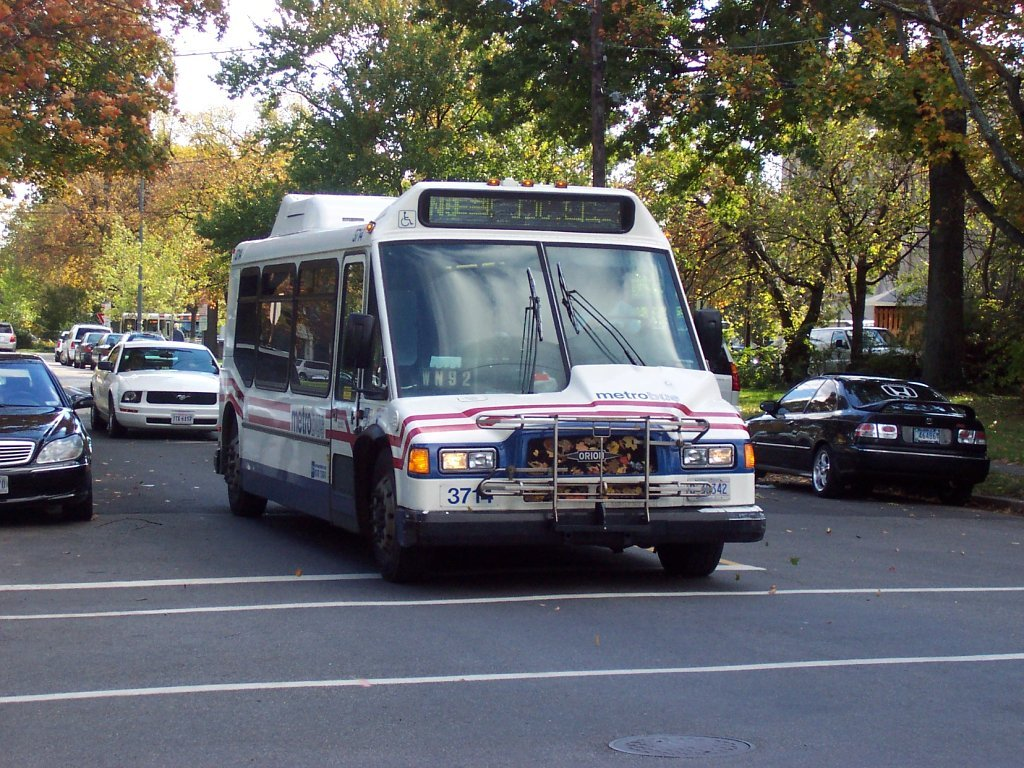 WMATA Orion shuttle 3714 in the Tenleytown area of Washington, DC.